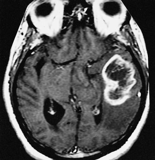 CNS: GLIOBLASTOMA MULTIFORME As seen here by magnetic resonance imaging, the glioblastoma multiforme usually exhibits a "ring" or "ring-like" zone of contrast enhancement around a dark central area of necrosis.